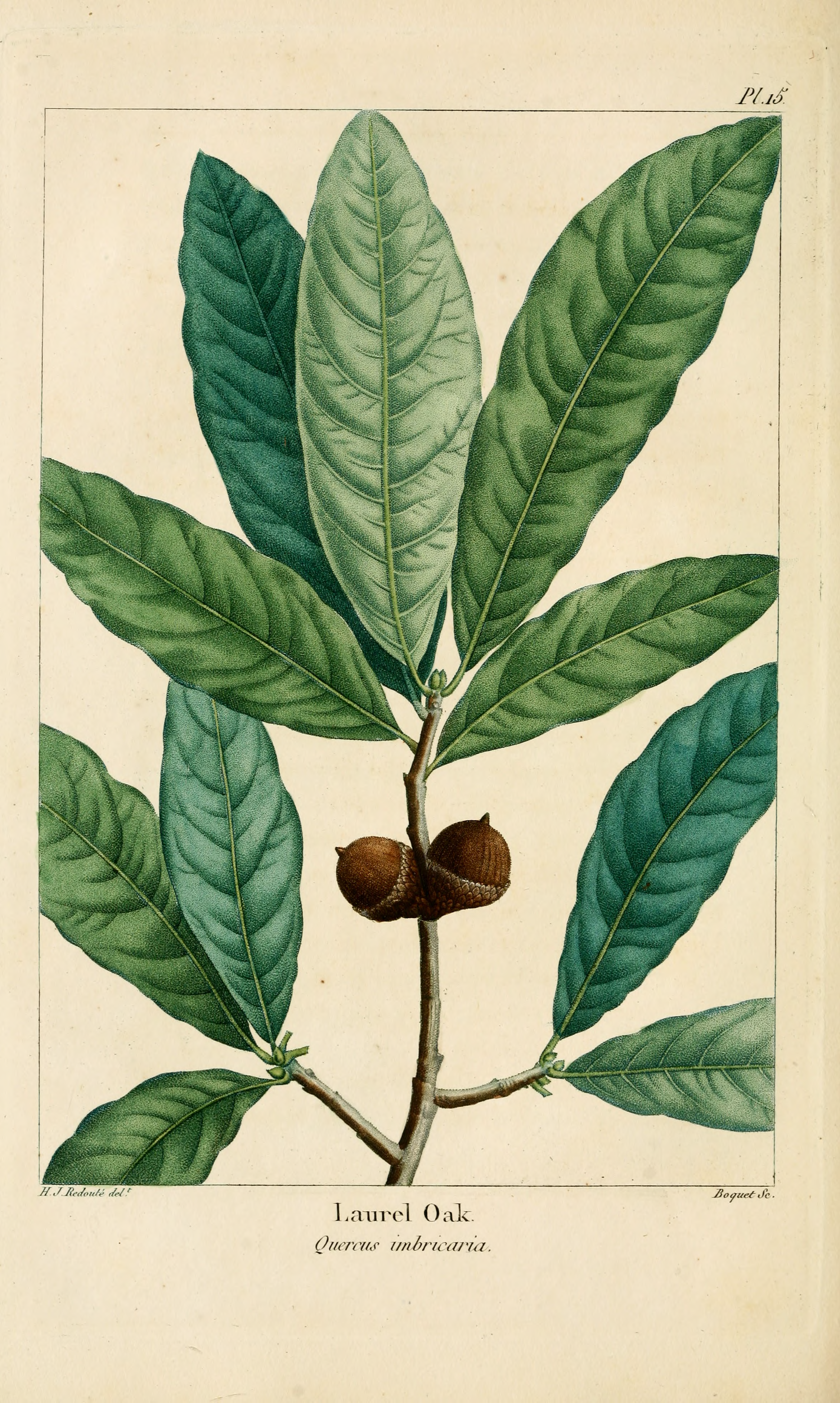 Quercus imbricaria - shingle oak [Laurel Oak, Chêne laurier]